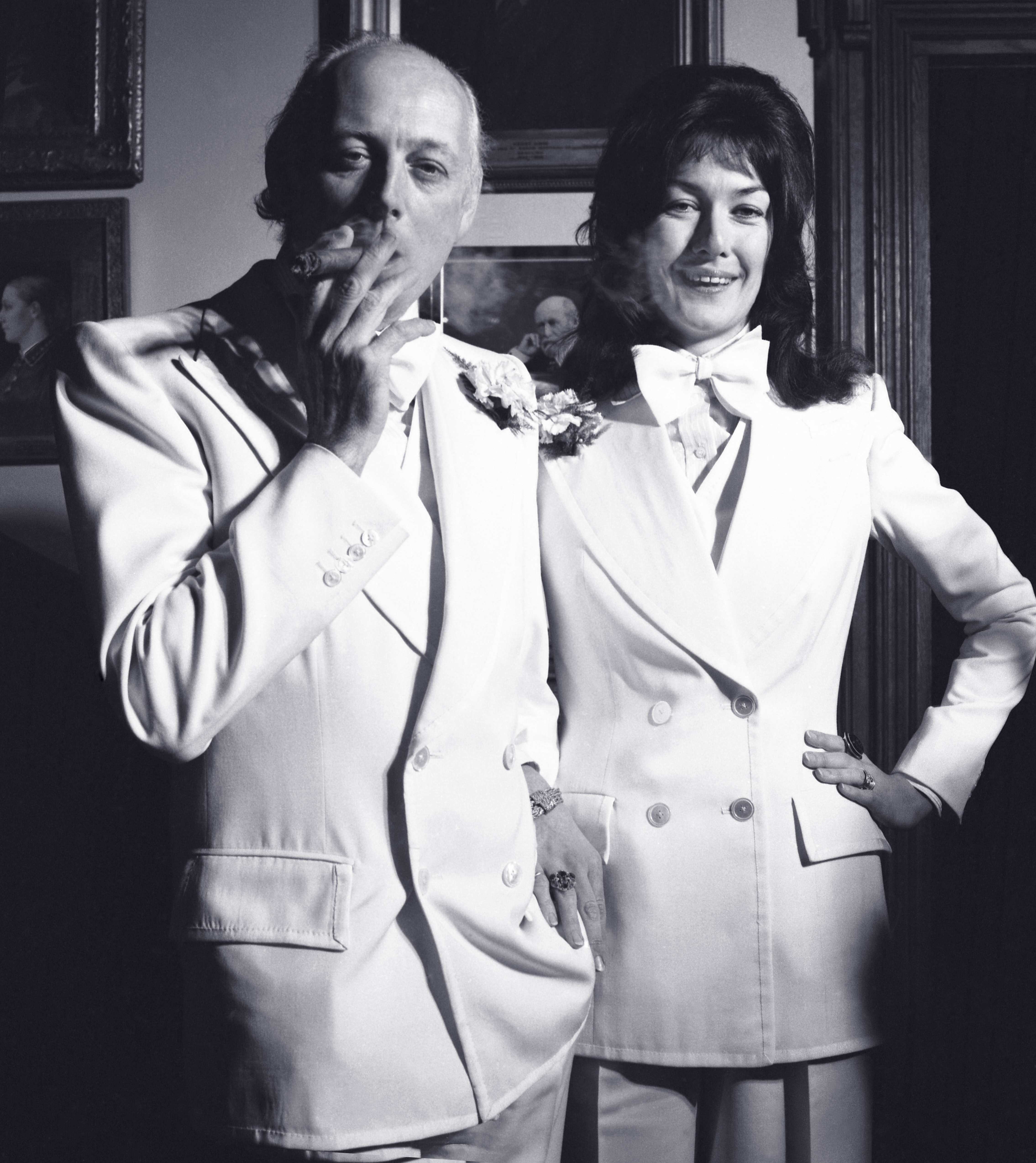 Edward & Fiona Montagu of Beaulieu on their wedding day at Palace House, Beaulieu, Hampshire